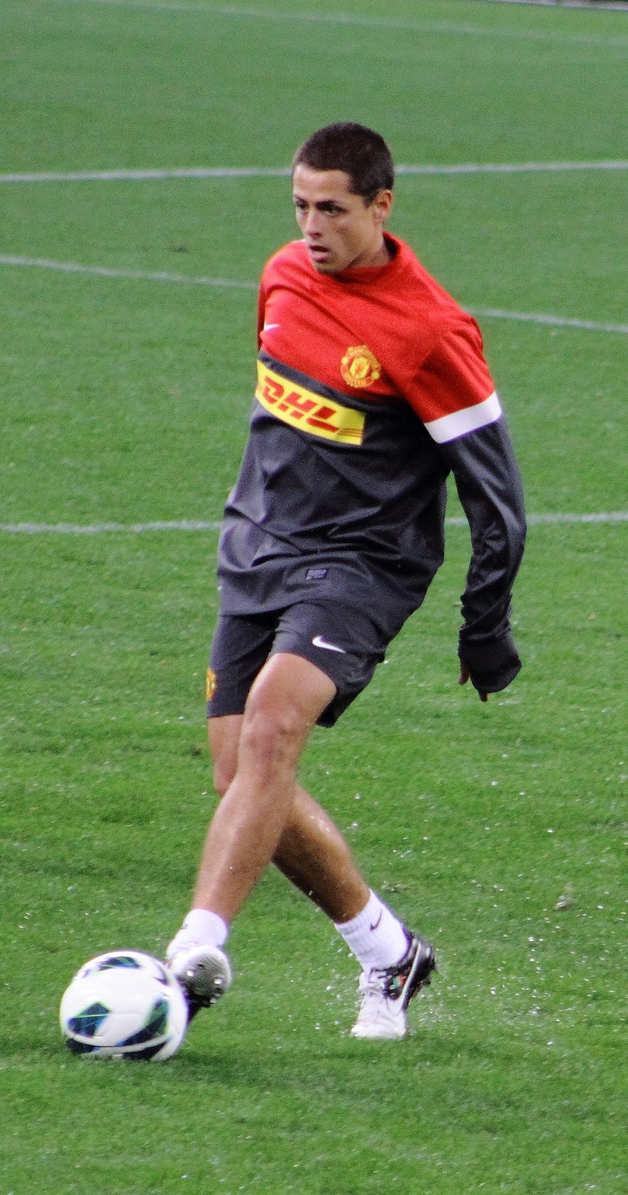 Javier Hernández - Chicharito